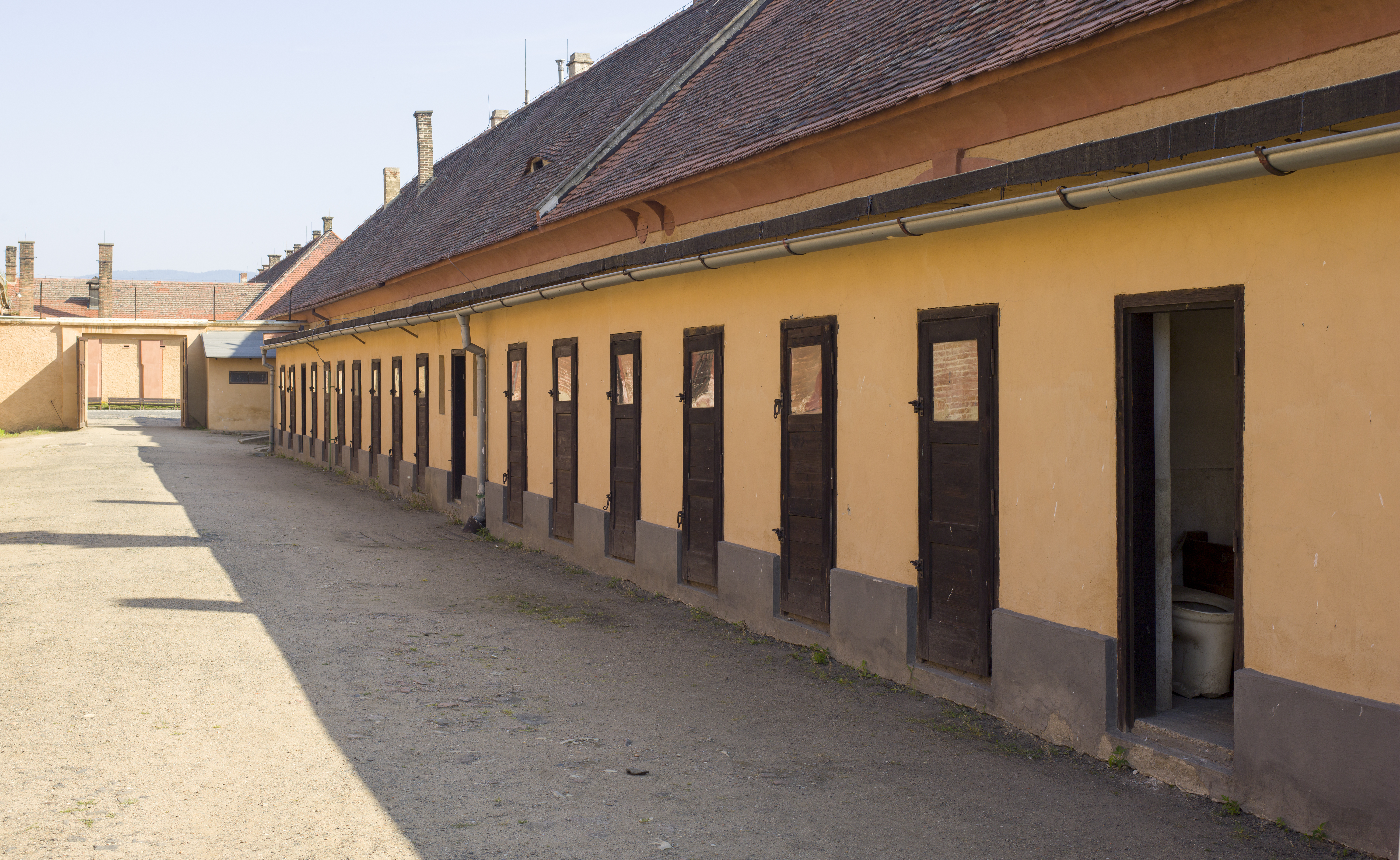 Theresienstadt concentration camp special housing unit.